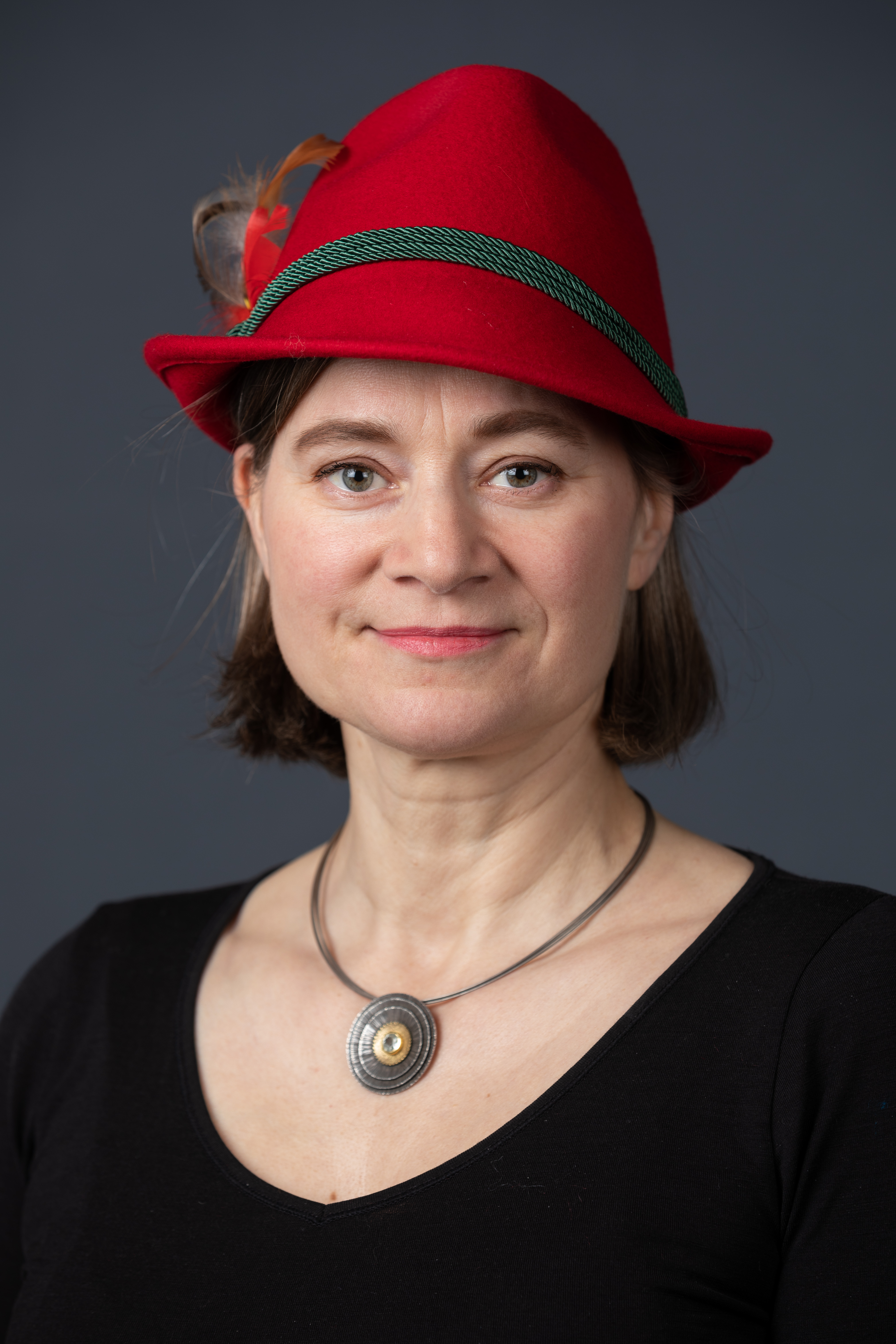 Anke Domscheit-Berg, Member of the German Bundestag, Berlin, Febuary 2020